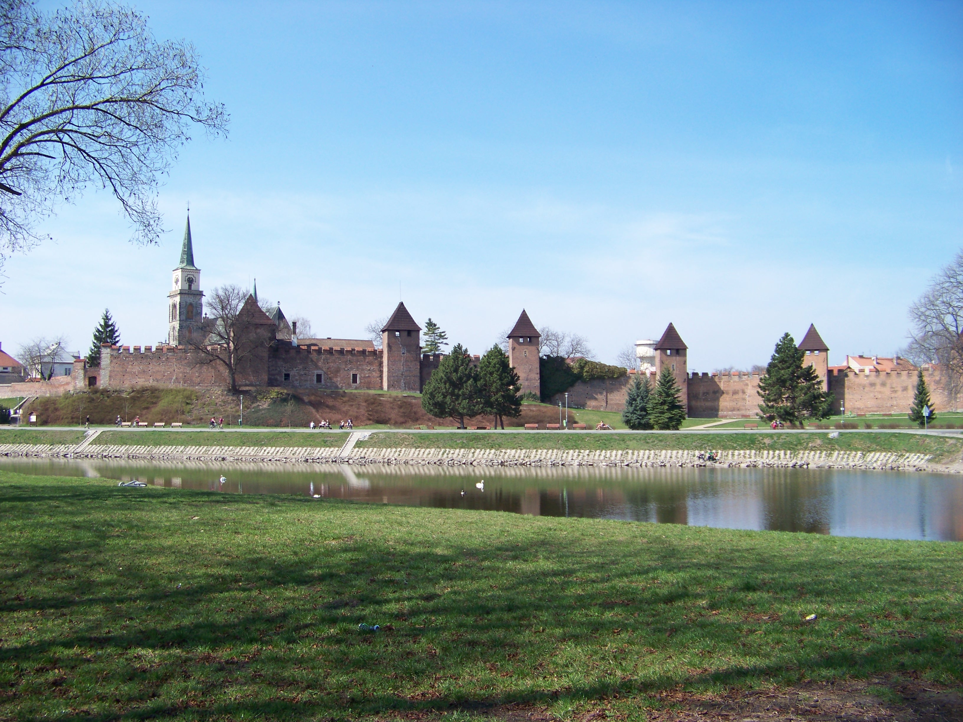 Nymburk, Central Bohemian Region, the Czech Republic. Nymburk Protective Port, a view of the city. - OpenStreetMap(Info)